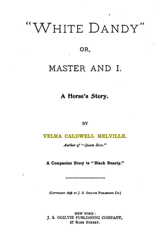 "White Dandy", Or, Master and I: A Horses's Story ... : a Companion to "Black Beauty" by Velma Caldwell Melville